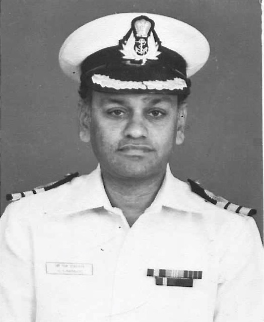 Cdr. G. Sri Rama Rao in the Indian Navy